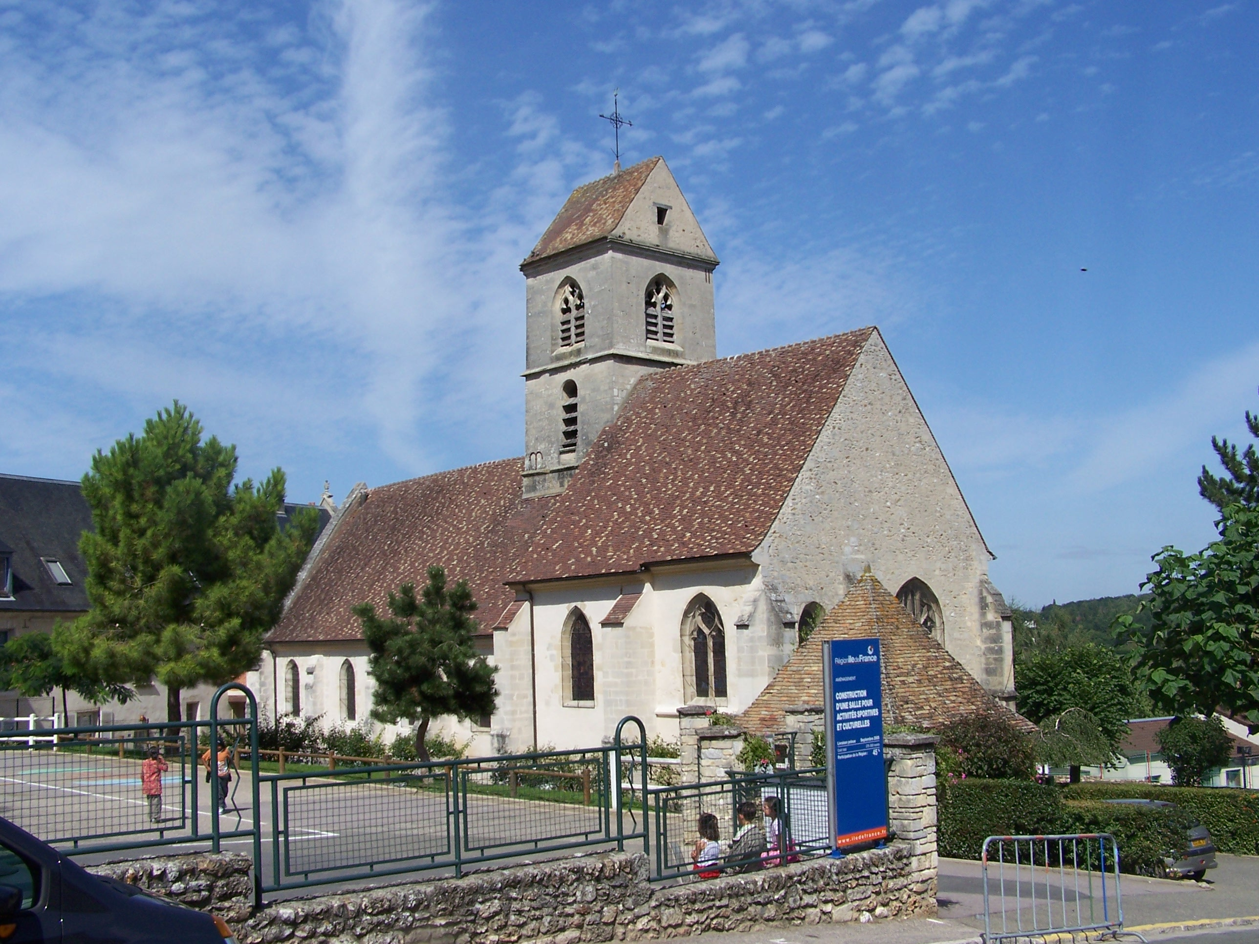 Church of Bazemont (Yvelines, France)